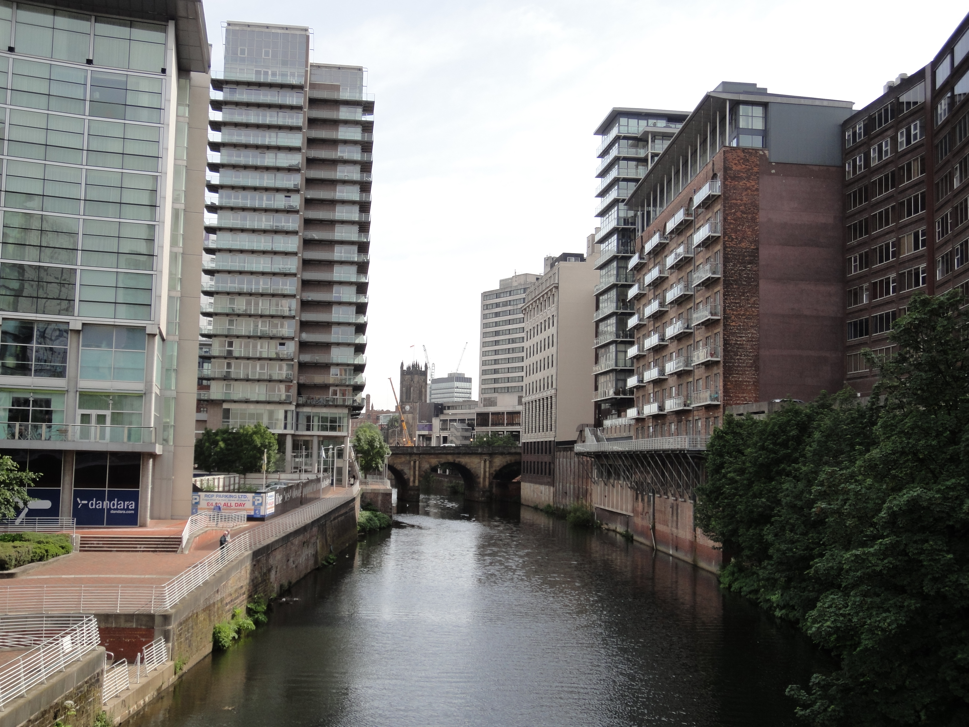 City centres of Salford and Manchester, river Irwell